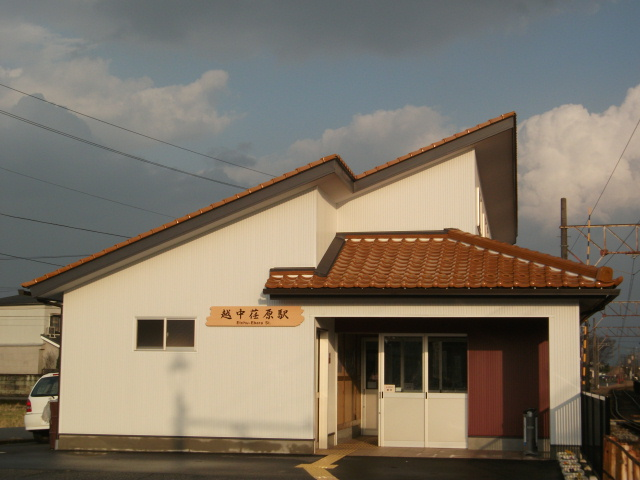 Toyama Chiho Railway Etchu Ebara Station(Renewal After)